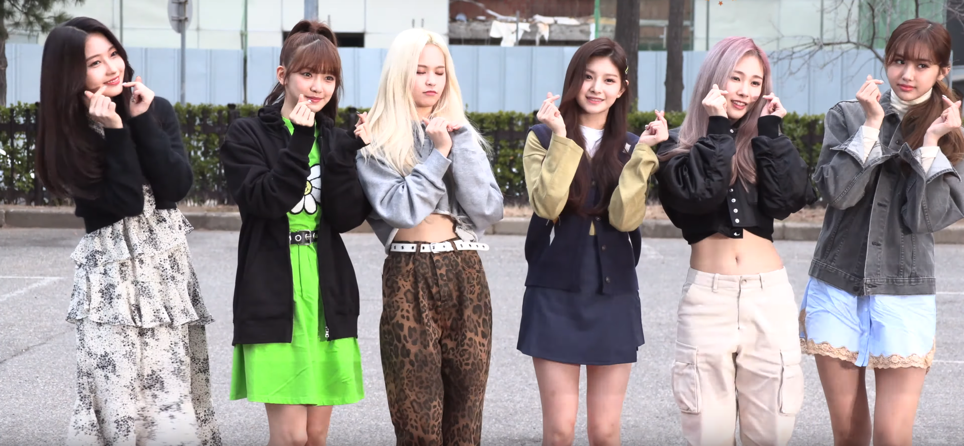 EVERGLOW (에버글로우) E:U 시현 MIA ONDA AISHA 이런 29일 KBS 뮤직뱅크에 에버글로우가 출근하고 있다